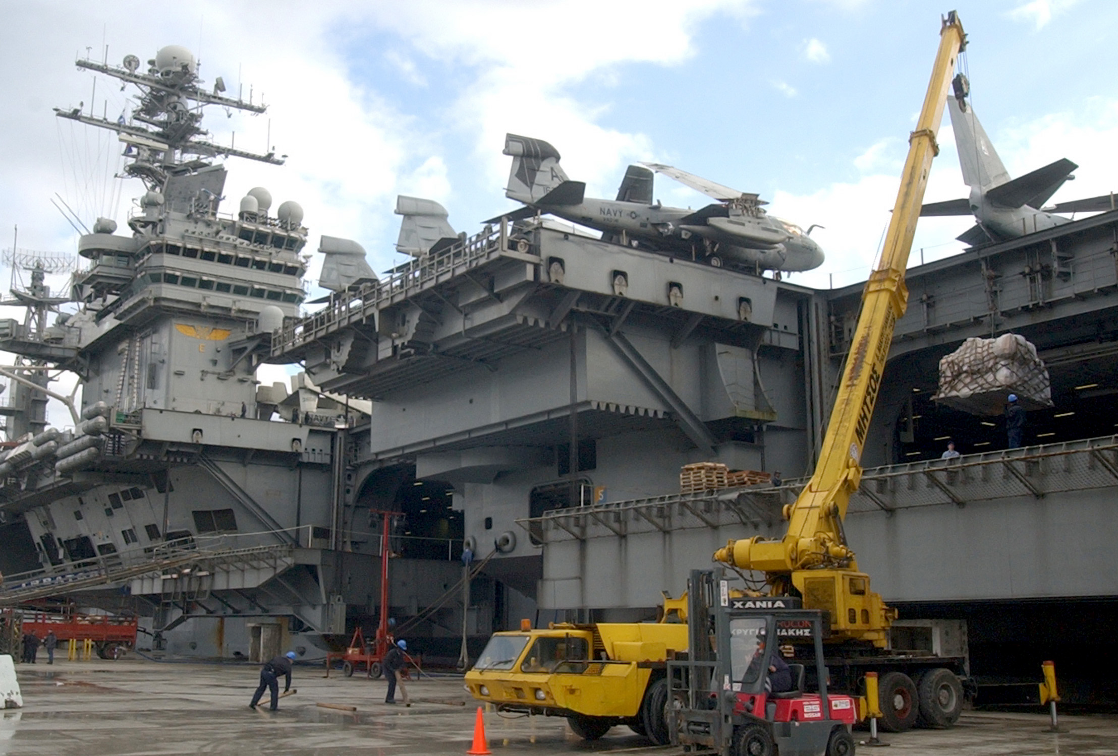 Souda Bay, Crete, Greece (Mar. 4, 2003) – USS Theodore Roosevelt (CVN 71) receives cargo while pierside at the NATO Marathi Pier Facility. The aircraft carrier is currently on a regularly scheduled deployment in support of Operation Enduring Freedom.